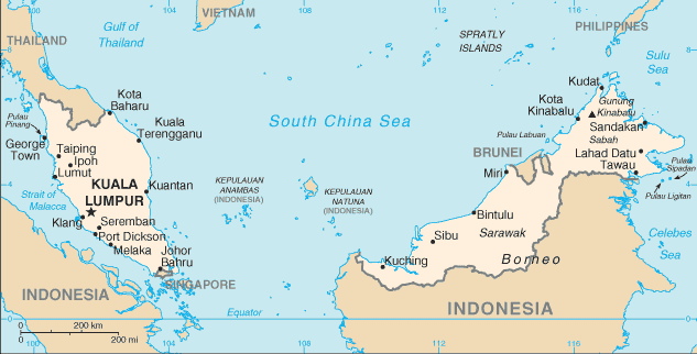 Map of Malaysia showing major cities.